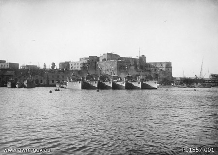 AWM Caption: BRINDISI, ITALY. 1917. RAN "RIVER" CLASS DESTROYER FLOTILLA AT ANCHOR IN THE HARBOUR, BELOW DEFISA CASTLE. LEFT TO RIGHT: HMAS PARRAMATTA (55), YARRA (79), HUON (50), SWAN (61), WARREGO (70) AND A BRITISH ROYAL NAVY DESTROYER. HMAS TORRENS (NOT DEPICTED) WAS ALSO BASED WITH THE OTHER FIVE DESTROYERS AT BRINDISI FROM 1917-08. (DONOR E. GRACE)